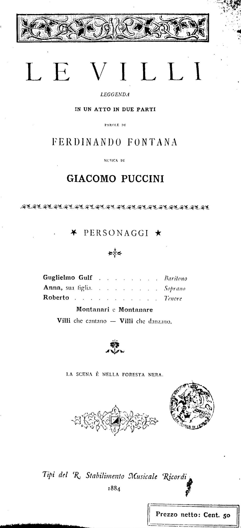 Cover of the first libretto of Giacomo Puccini's Le Villi